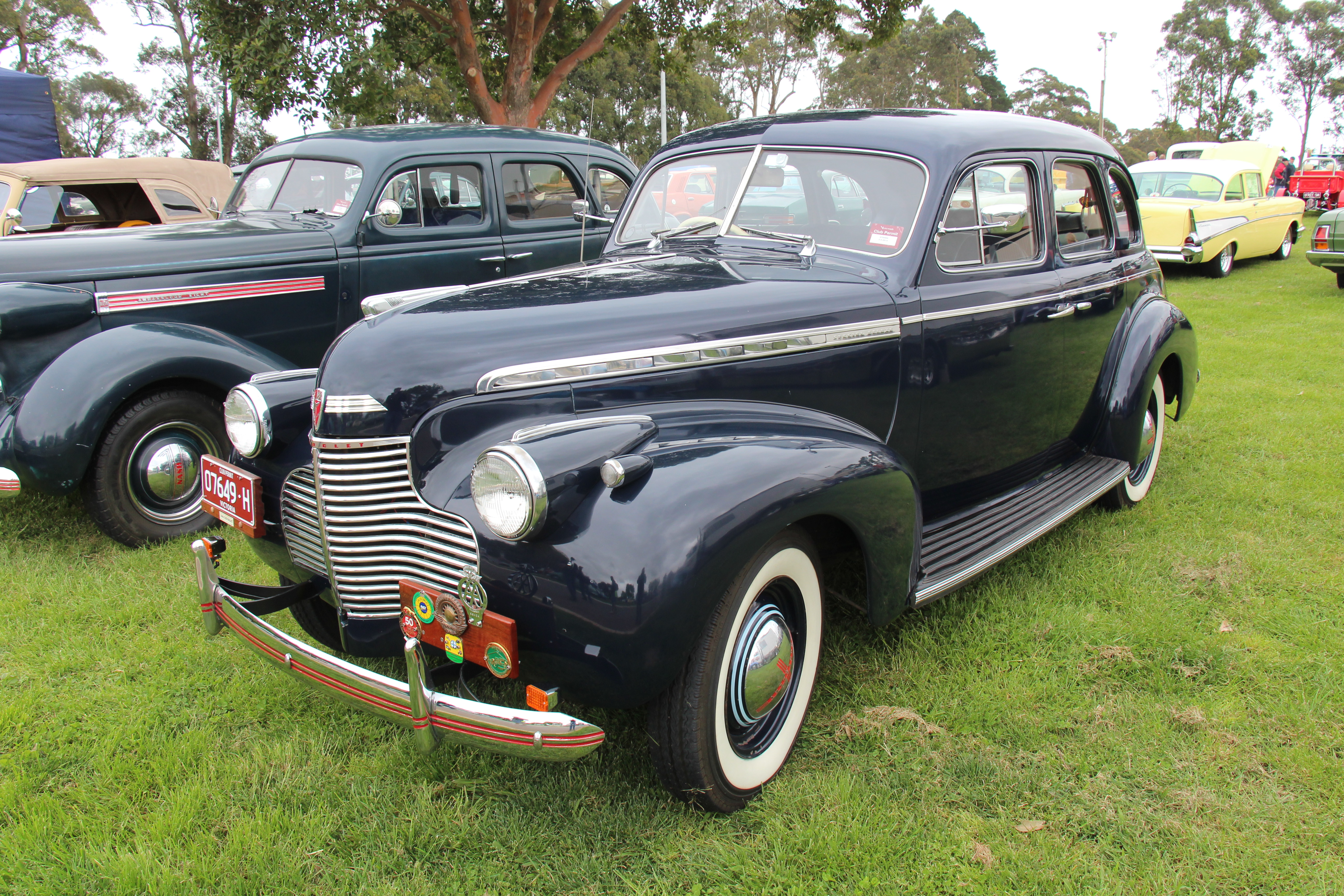 New front end styling for 1940, the headlights are slowly moving into the fenders and the grille is ftattening out. Available this year in base; Master 85 (I Beam front axle), mid spec; Master Deluxe (independent front suspension) and top Special Deluxe (Stainless Steel beltline and hood moulds) Chevrolets were also produced in Australia by General Motors using modified American bodies from 1926-68. Engine; 216 cu in blue flame 6